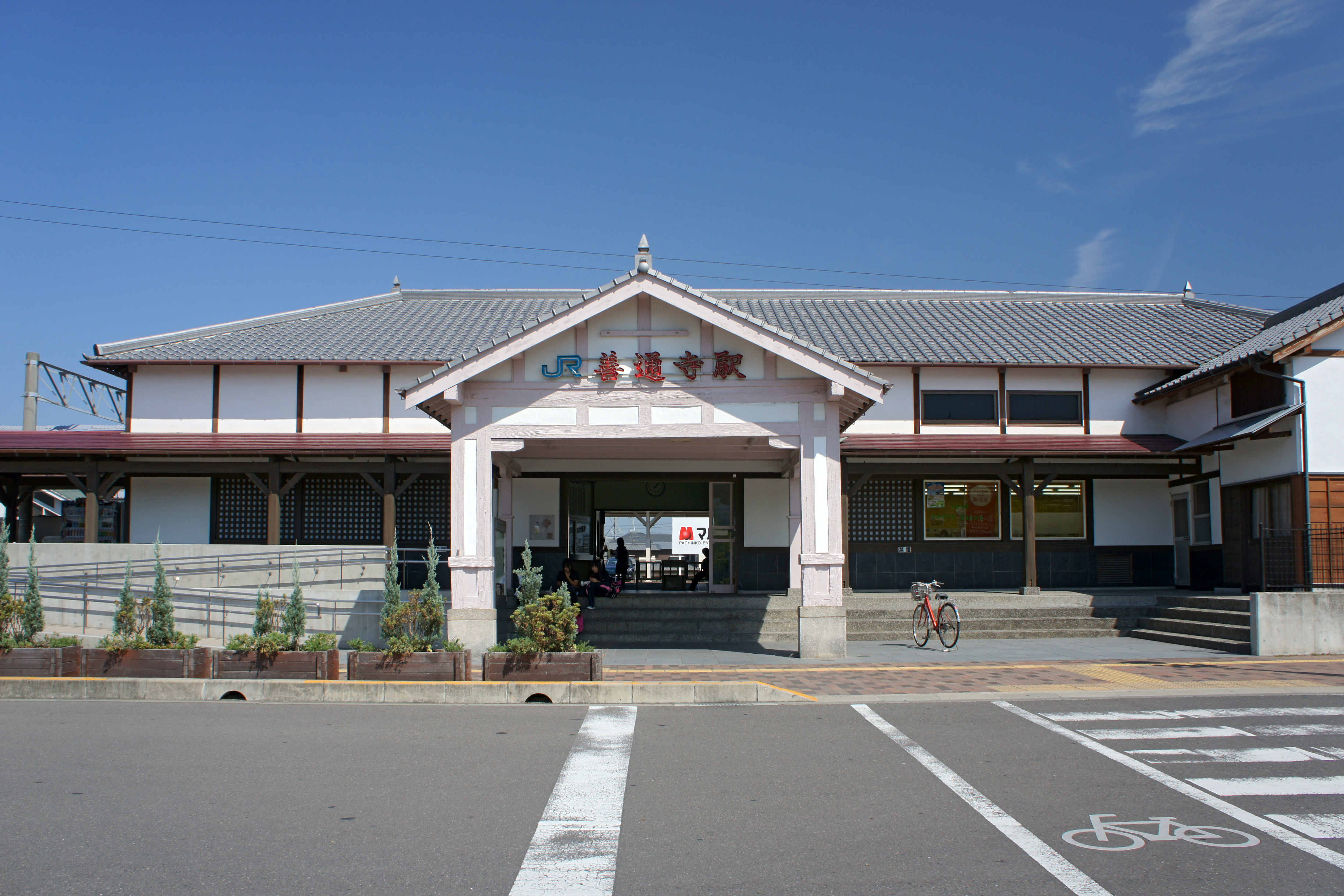 Zentsūji Station in Zentsūji City, Kagawa prefecture, Japan